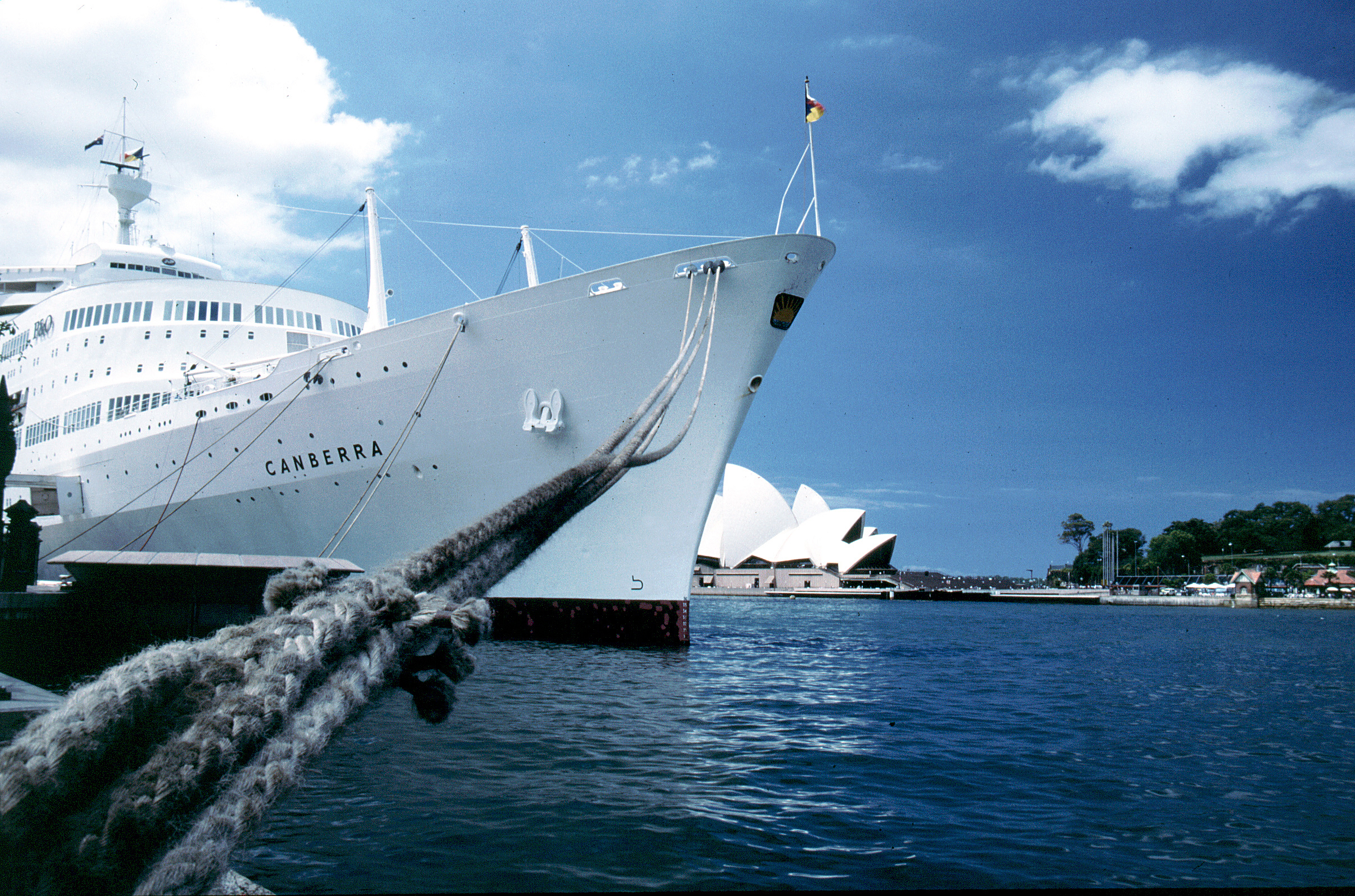 The "Canberra" in Port Jackson (Sydney Harbour).